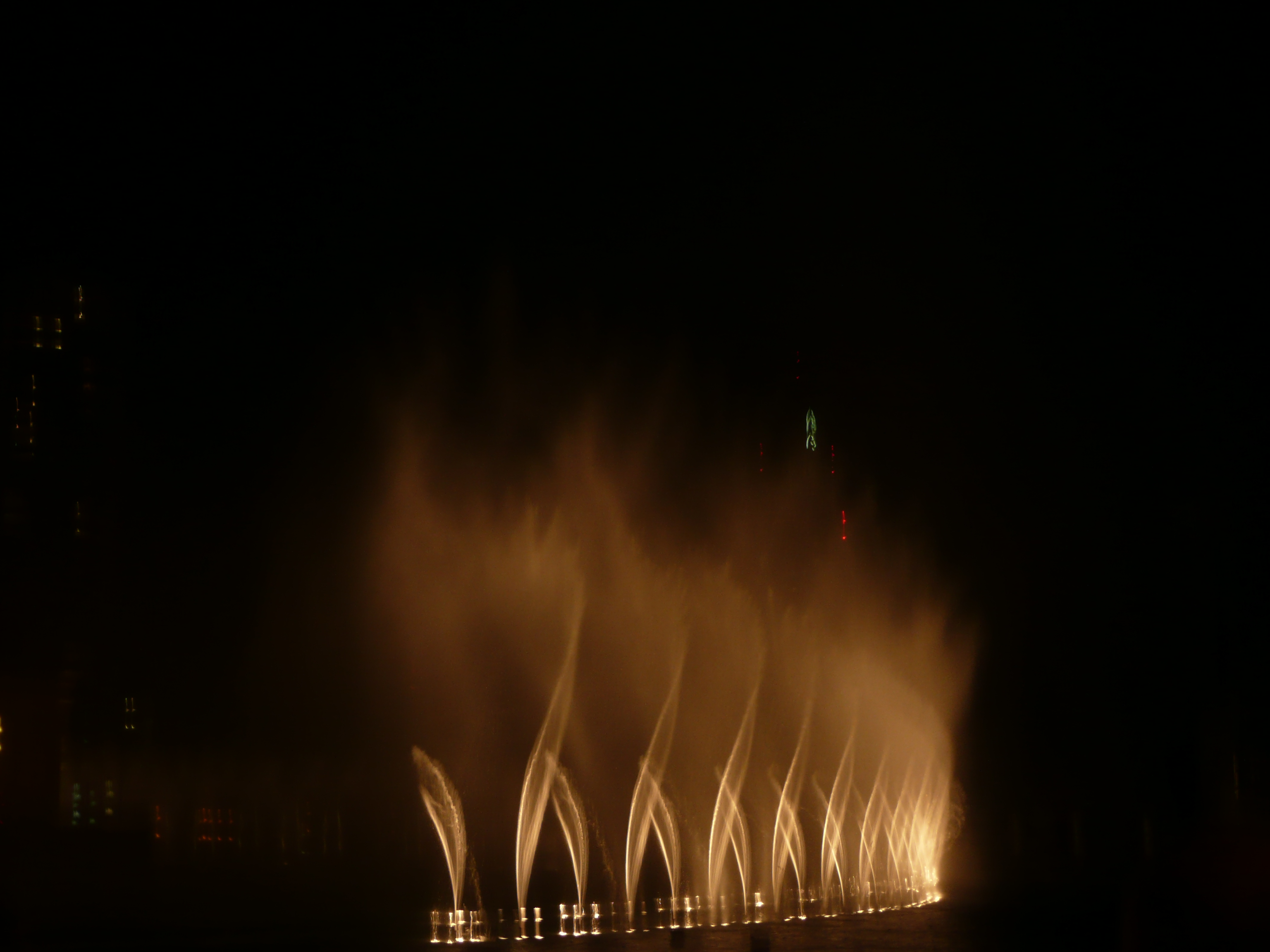 The Dubai Fountain performing to the song "Bassbor Al Fourgakom" by Hussain Al Jassmi and Al Thokol Samz.